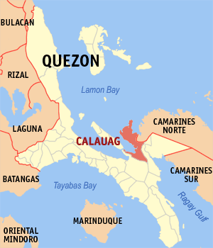 Map of Quezon showing the location of Calauag